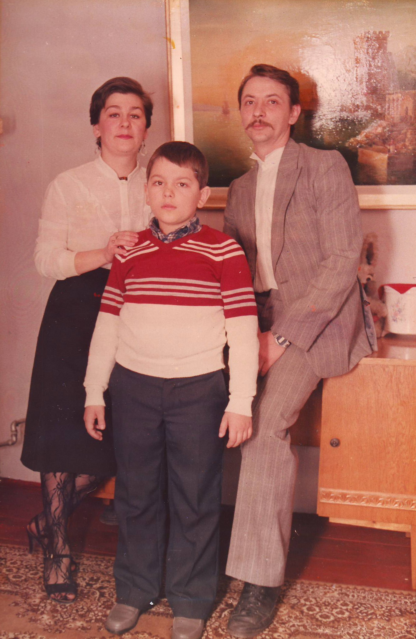 painter Mircea Ghiorghiu with his wife and kid